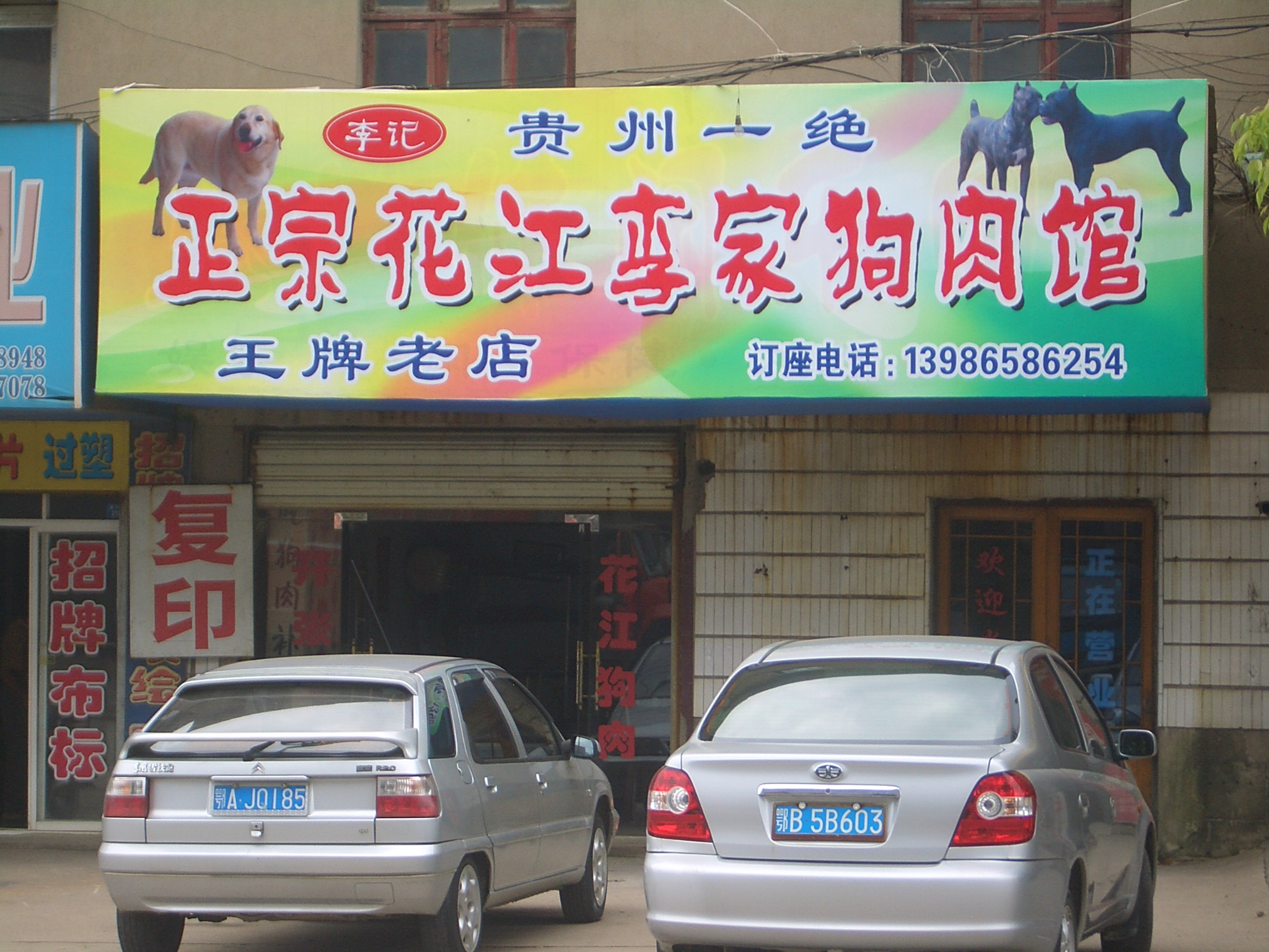 Huajiang Li family's meat restaurant, advertising a "Guizhou specialty, restaurant of original Huajiang Li familly dog meat", in a small mining / smelting town (Xialu Qu, 下陆区) between Daye and Tieshan. This is a speciality from Bouyei people, living at Huajiang town (花江镇), Guanling Buyei and Miao Autonomous County.